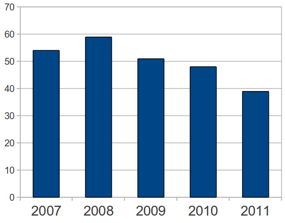 Level of trust to Vladimir Putin. Source of data.